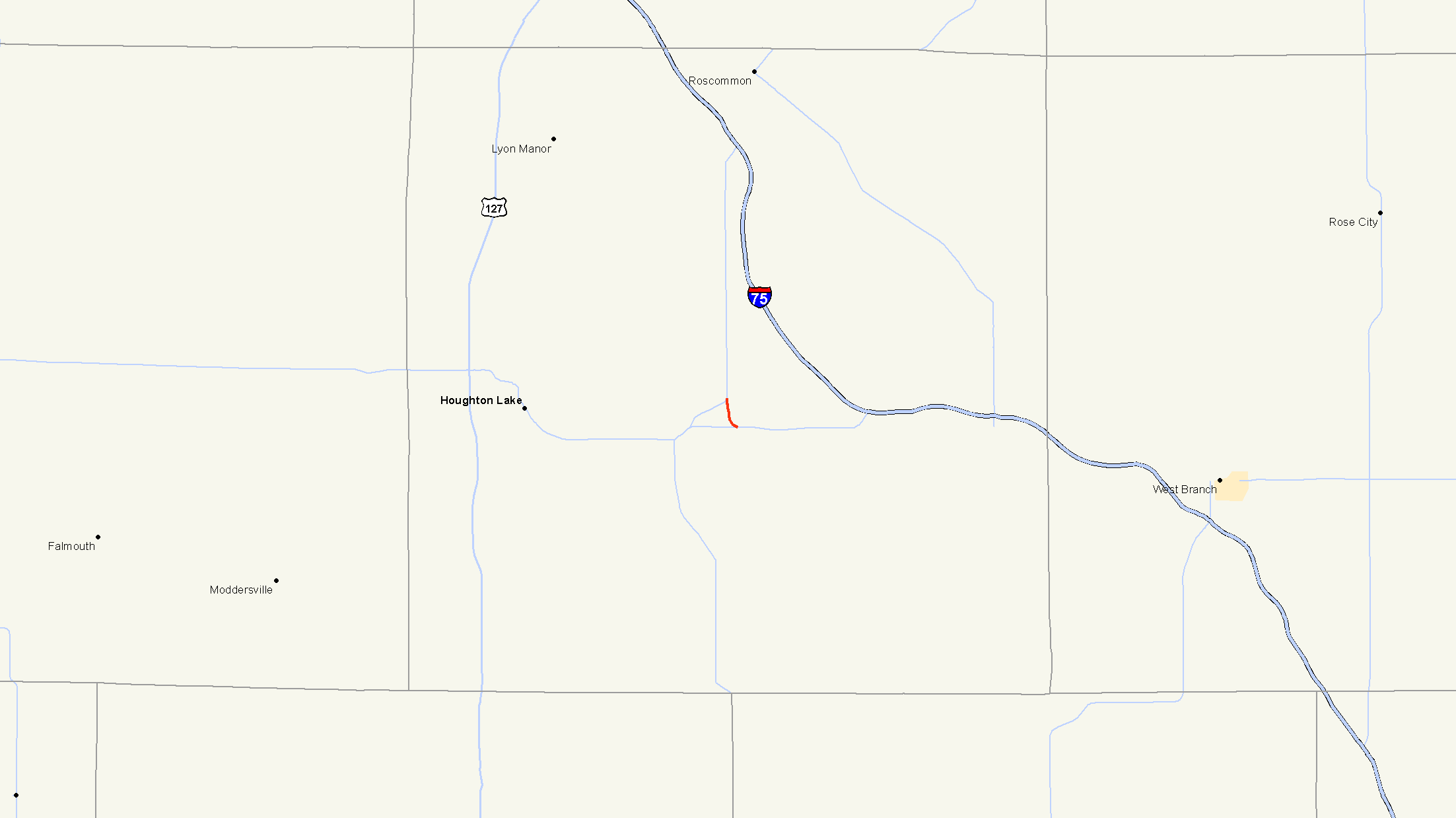 Map of M-157